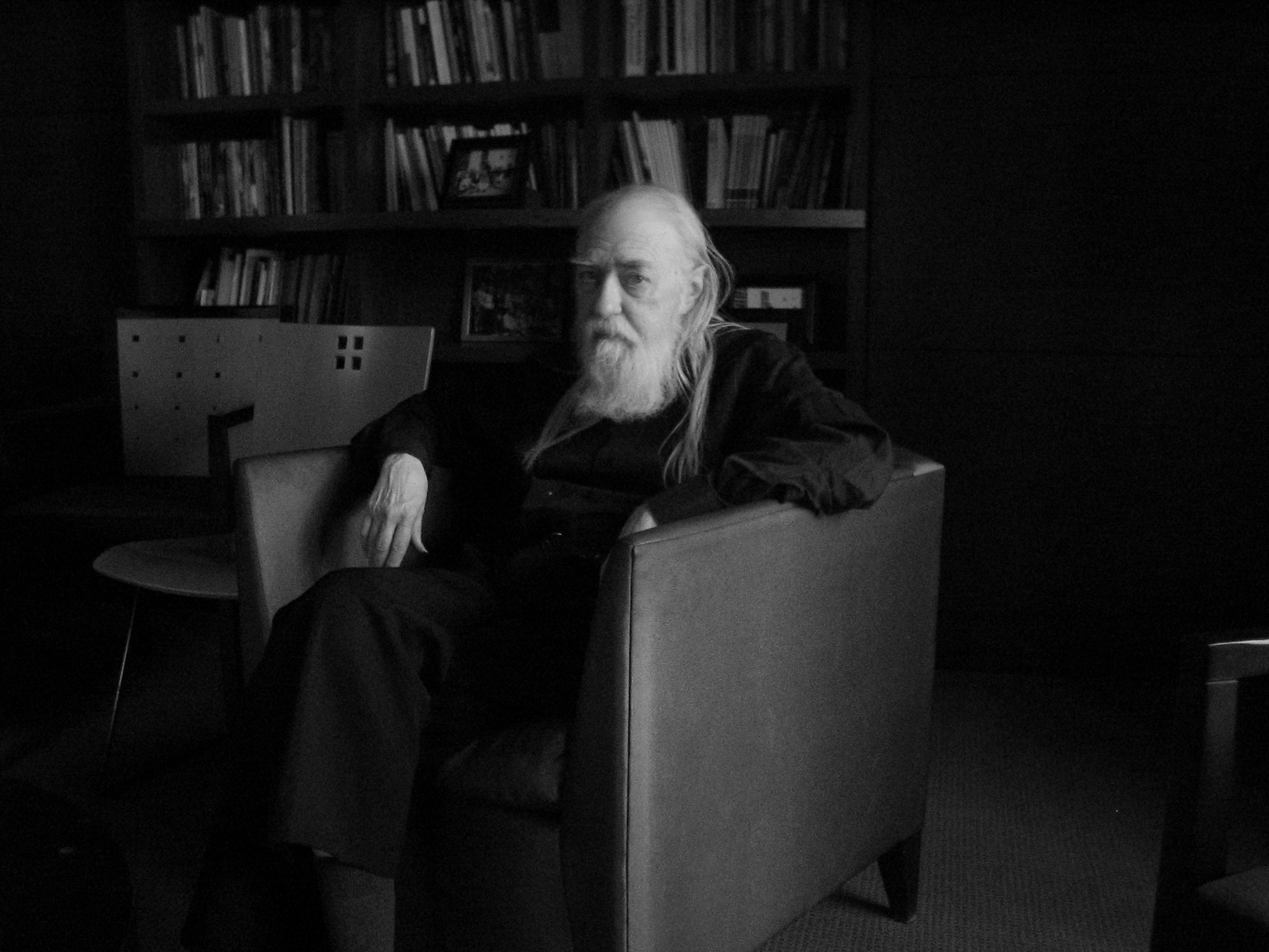 A photo of Keith Waldrop at Brown University in the Literary Arts Department building at 68 1/2 Brown Street.